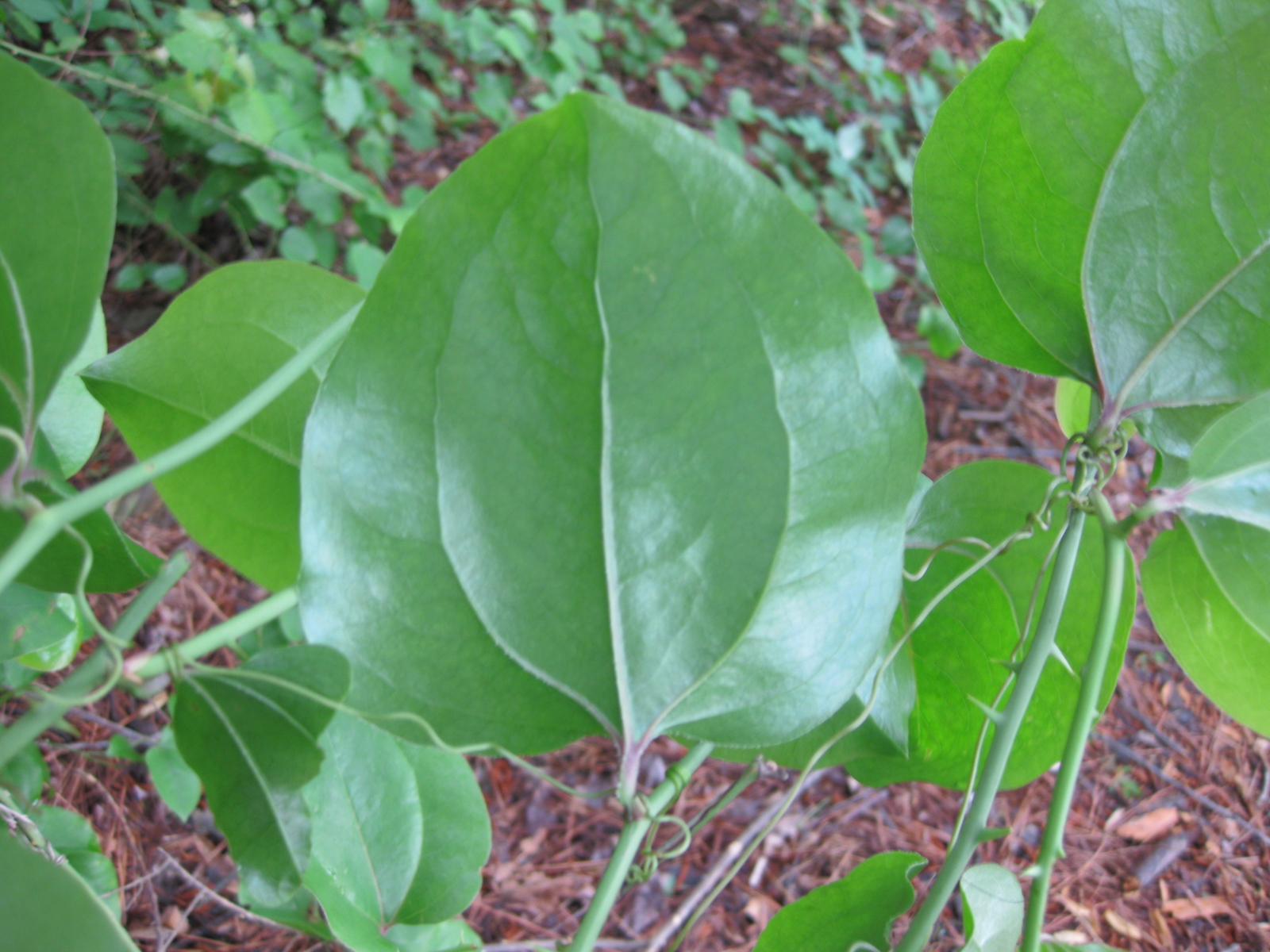 Smilax rotundifolia